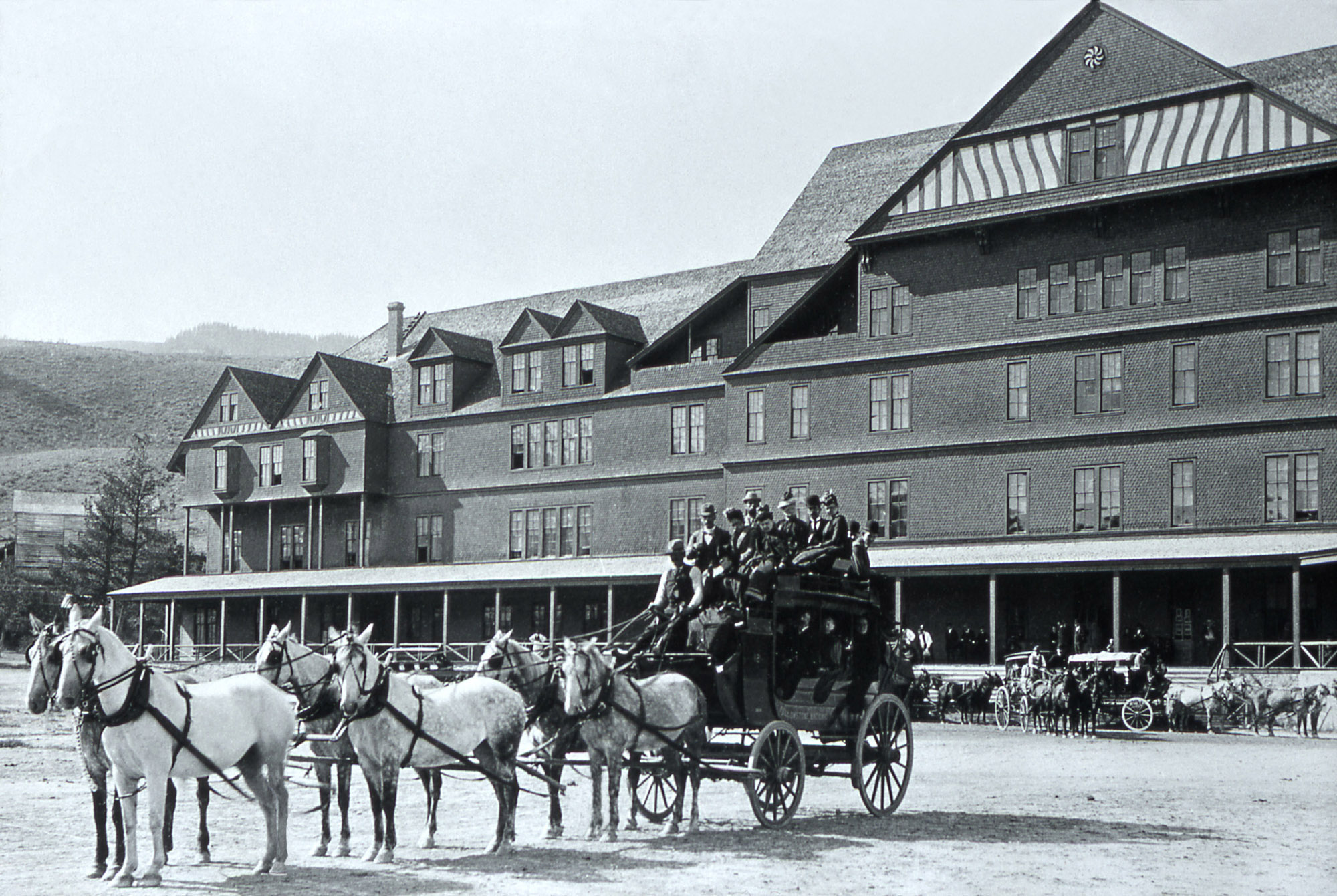 Stagecoach at the Mammoth Hot Springs Hotel in Yellowstone National Park, Wyoming, USA